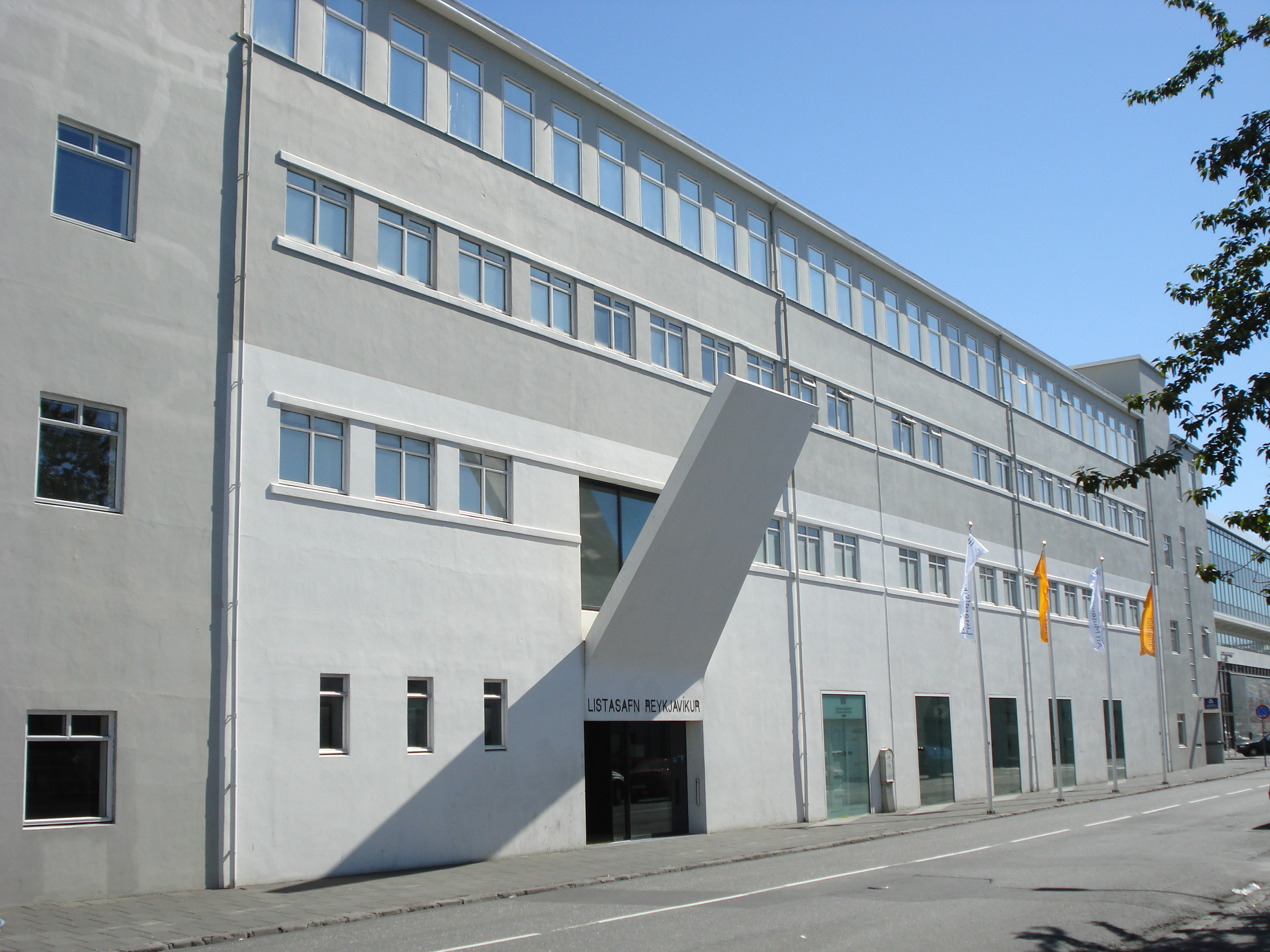 Listasafn Reykjavíkur, Museum of Art, Artmuseum of Reykjavík